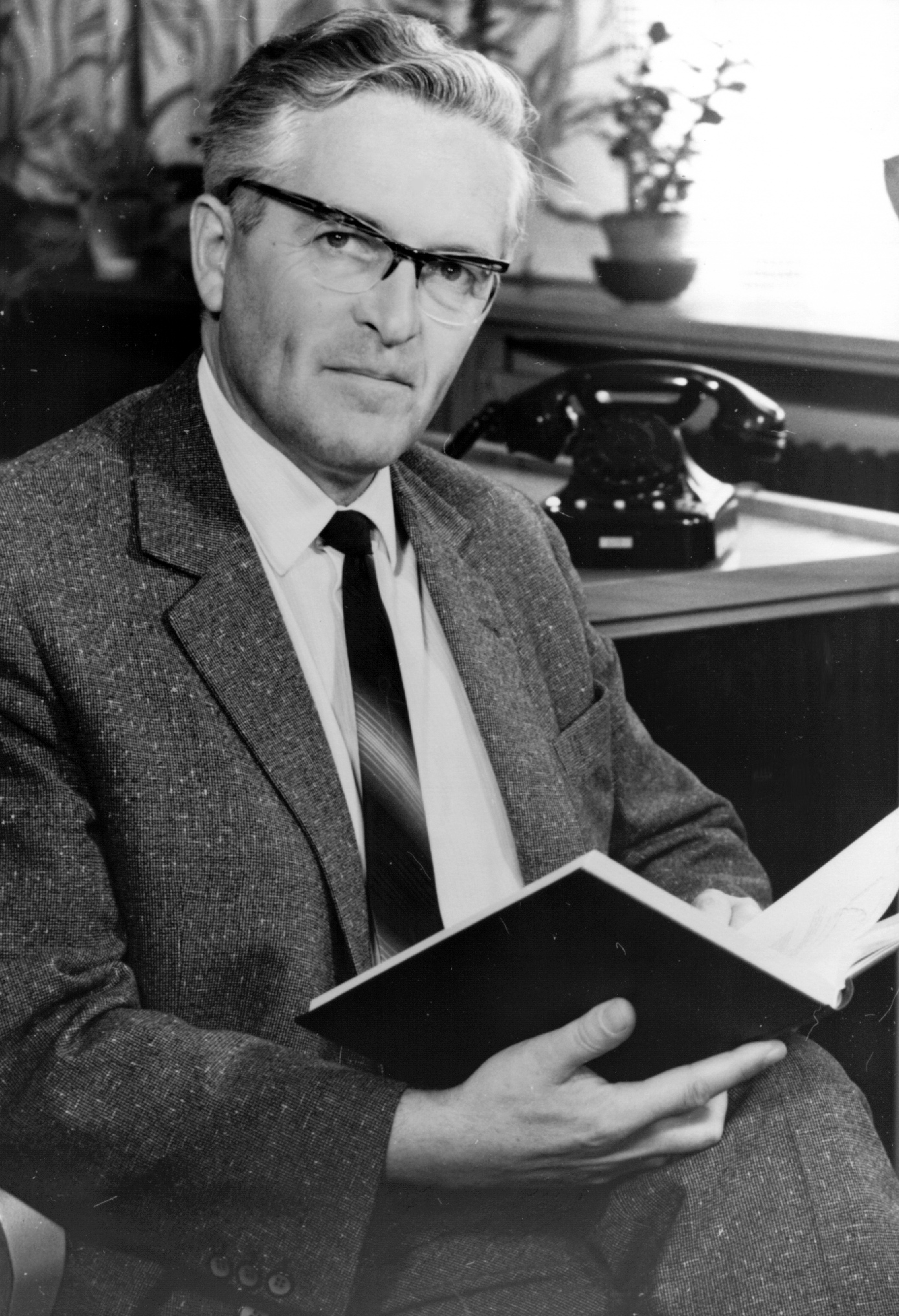 Helmuth Faulstich at Rossendorf, about 1965